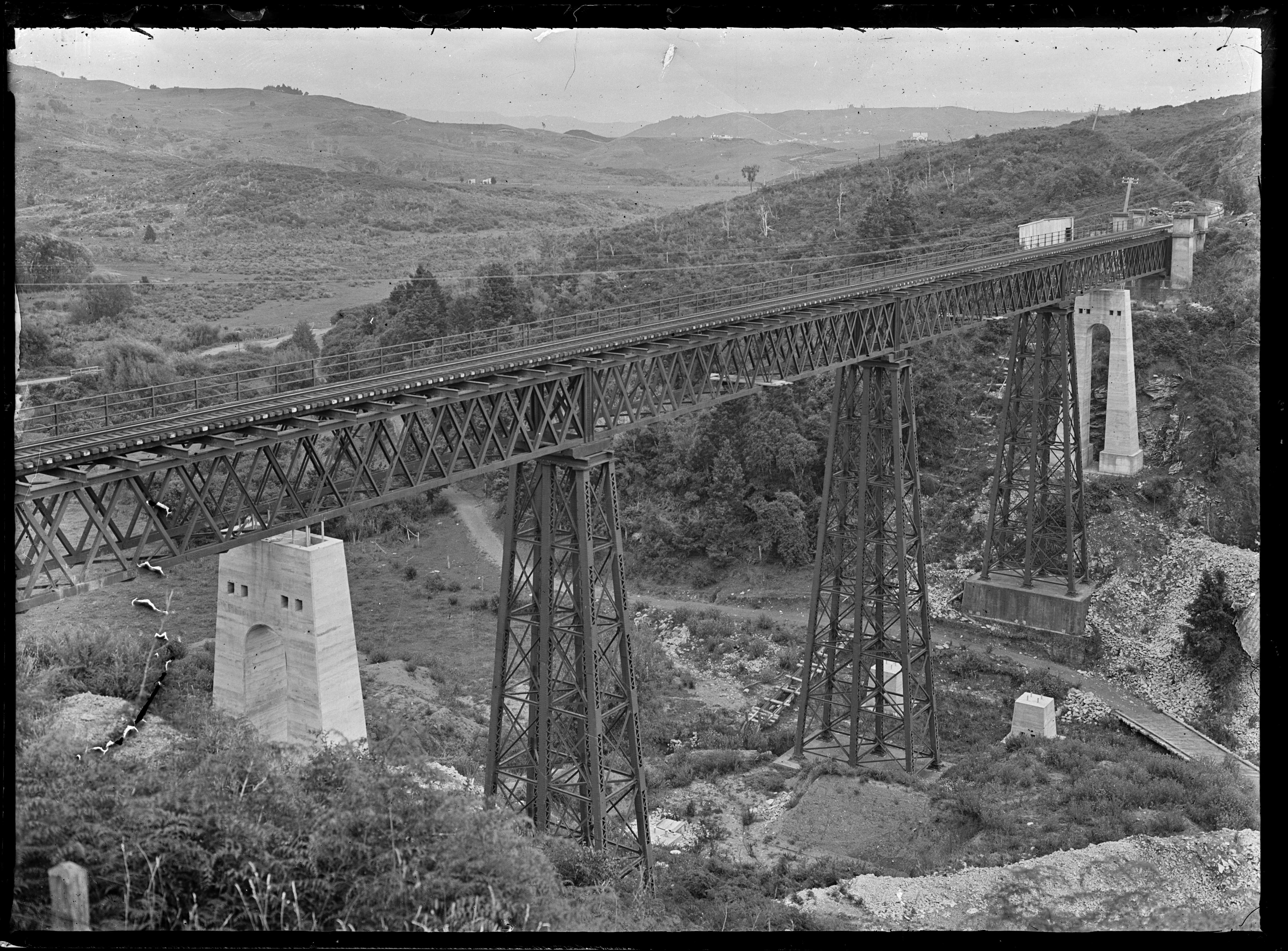 The Waiteti Viaduct, near Te Kuiti. Photograph taken by Albert Percy Godber, 1917.